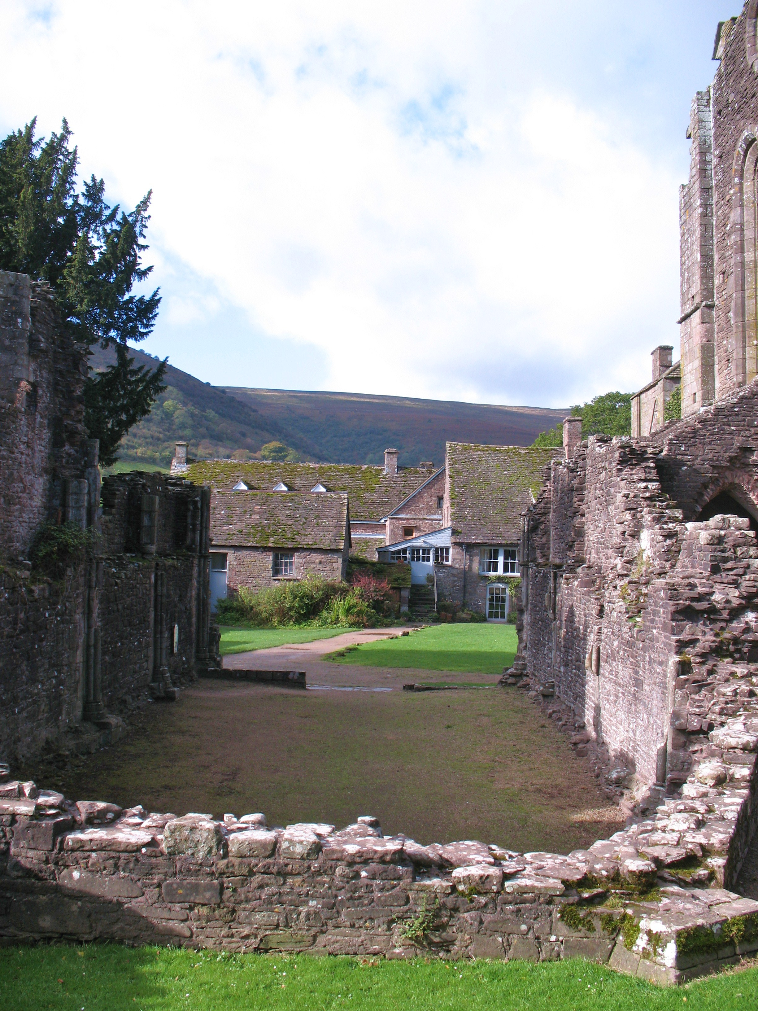 Court Farmhouse and Chapter House, Llanthony Priory